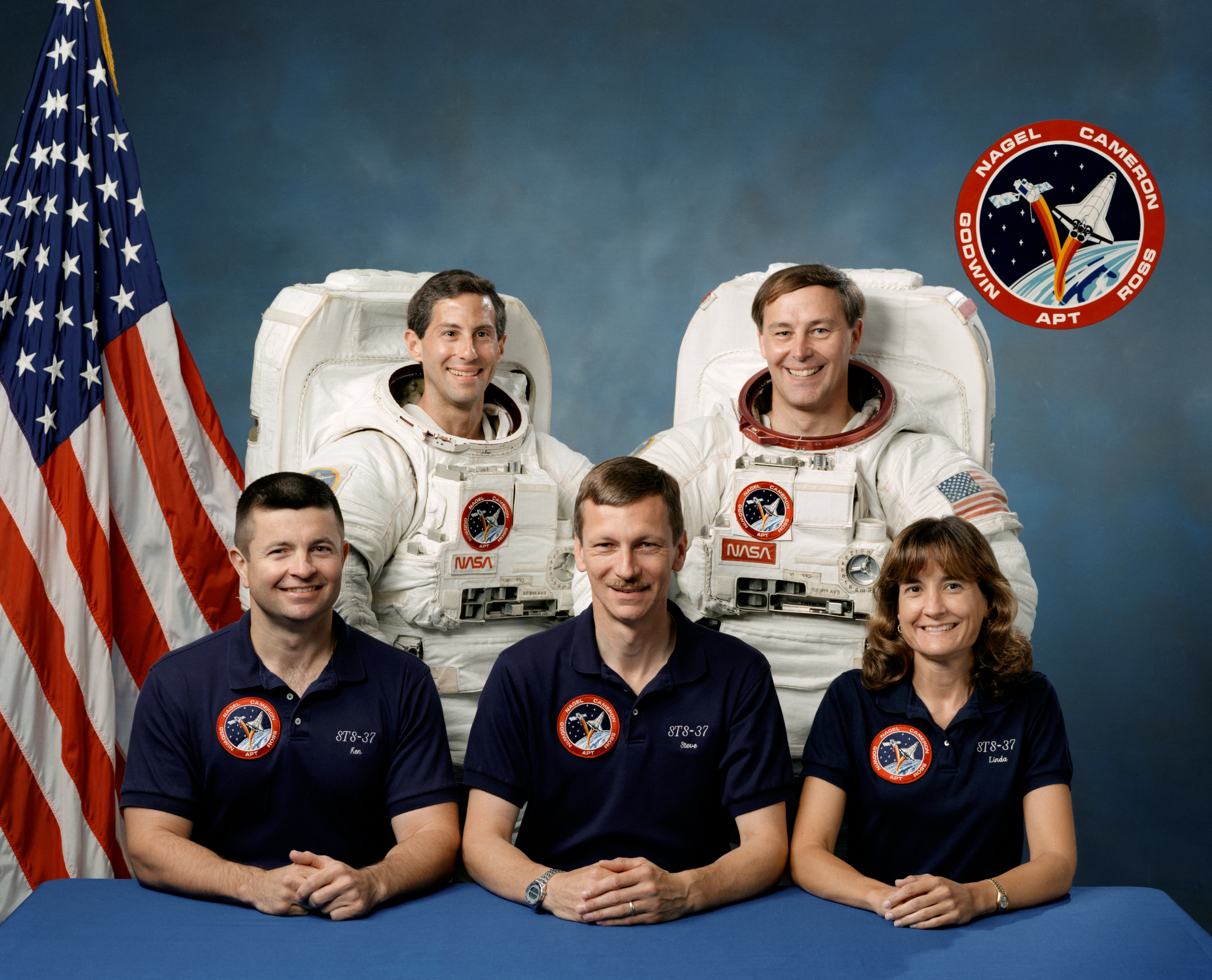 This is the STS-37 Crew portrait. Pictured from left to right are Kenneth D. (Ken) Cameron, pilot; Jay Apt, mission specialist; Steven R. Nagel, commander; and Jerry L. Ross and Linda M. Godwin, mission specialists. Launched aboard the Space Shuttle Atlantis on April 5, 1991 at 9:22:44am (EST), the crew's major objective was the deployment of the Gamma Ray Observatory (GRO). Included in the observatory were the Burst and Transient Source Experiment (BATSE); the Imaging Compton Telescope (COMPTEL); the Energetic Gamma Ray Experiment Telescope (EGRET); and the Oriented Scintillation Spectrometer Telescope (OSSEE).